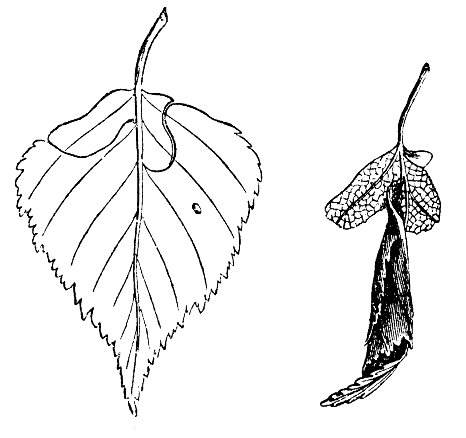 Left, A Birch Leaf-roller's (Deporaus betulae) cut in a leaf. Right, a completed leaf-roll